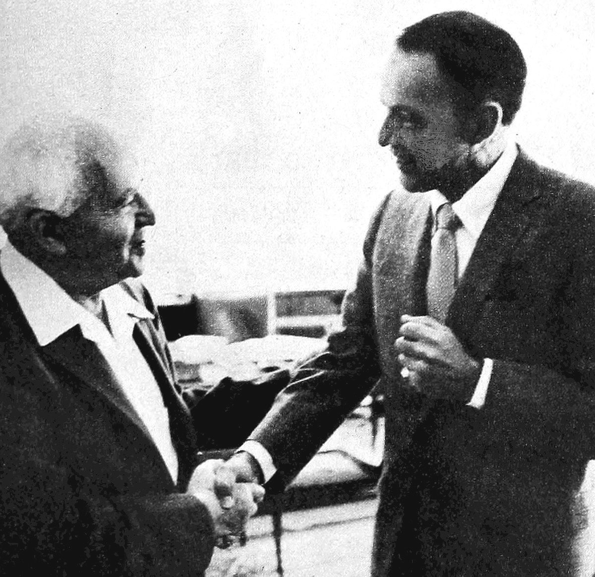 Photo of Israeli Prime Minister Ben-Gurion and Frank Sinatra in Israel 1962.